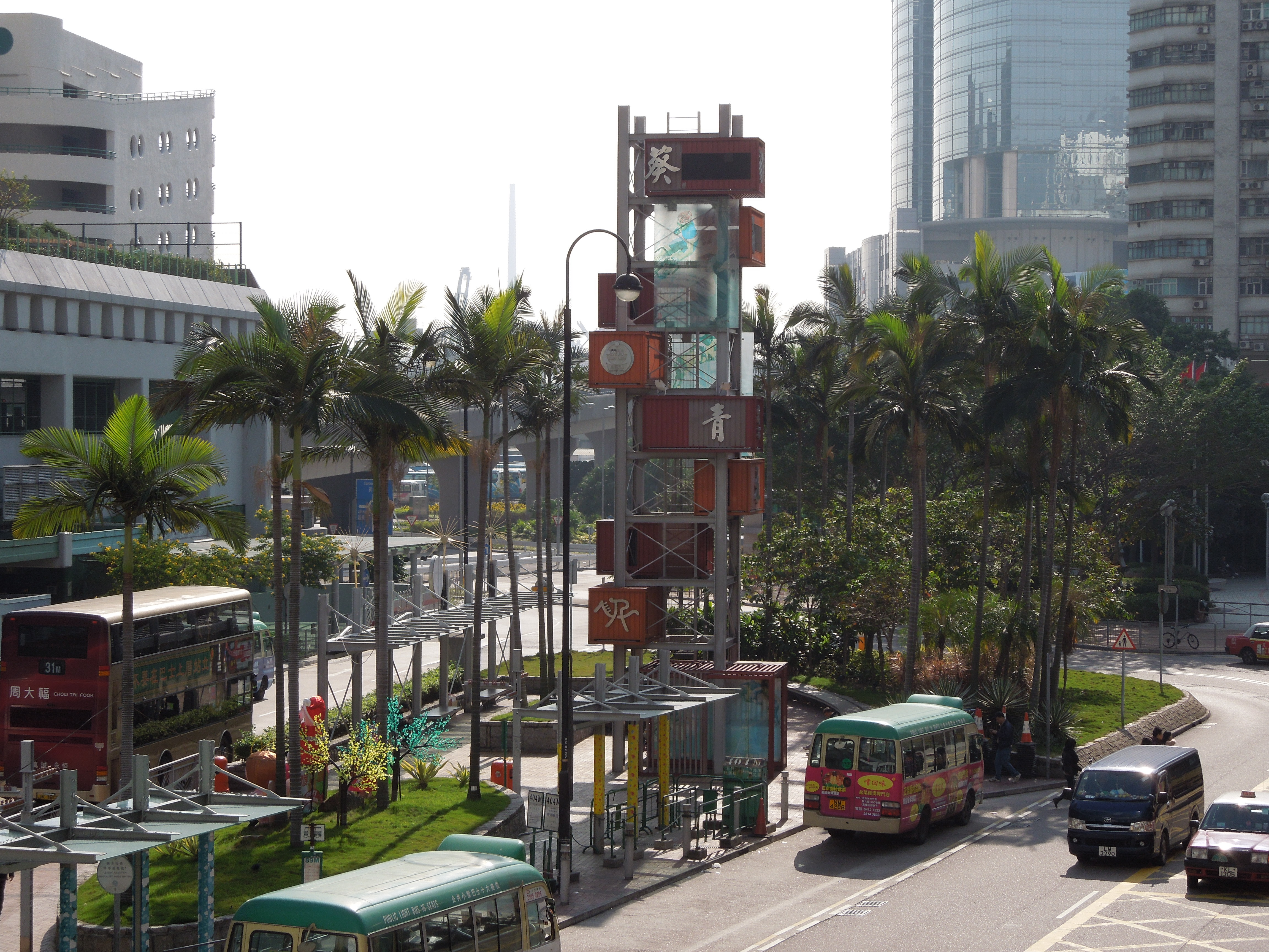 Kwai Fong containers sculpture